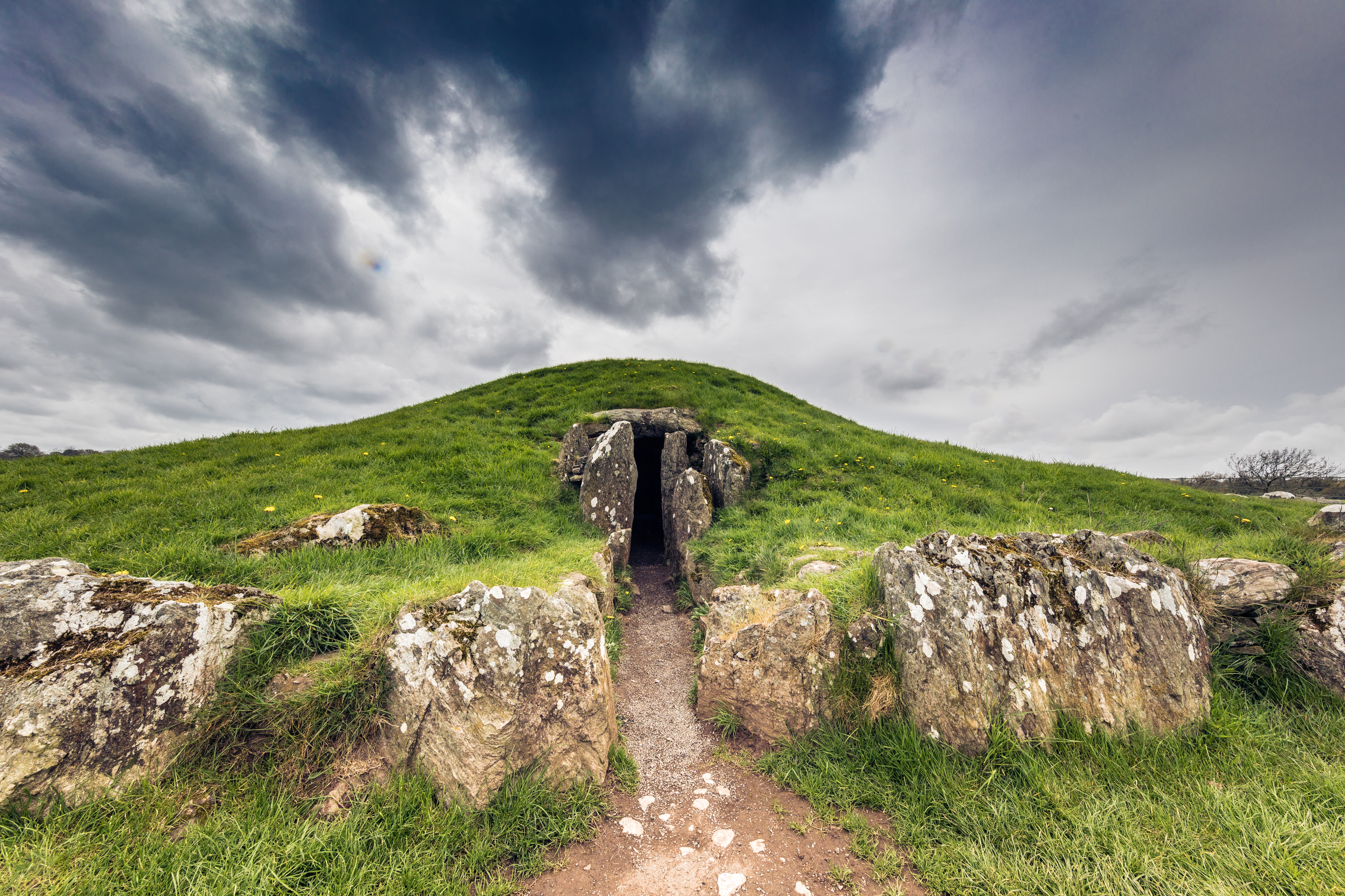 Entrance, aligned with the Summer Solstice